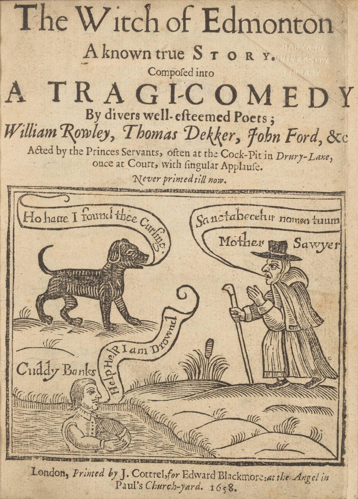 Title page: The witch of Edmonton: a known true story / composed into a tragi-comedy by divers well-esteemed poets, William Rowley, Thomas Dekker, John Ford, &c. Main author: Thomas Dekker (approximately 1572-1632). Printed in London by J. Cottrel, 1658. 14433.26.13, Houghton Library, Harvard University